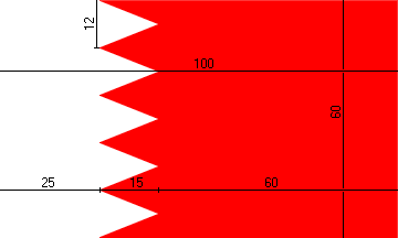 Construction sheet for the flag of Bahrain.